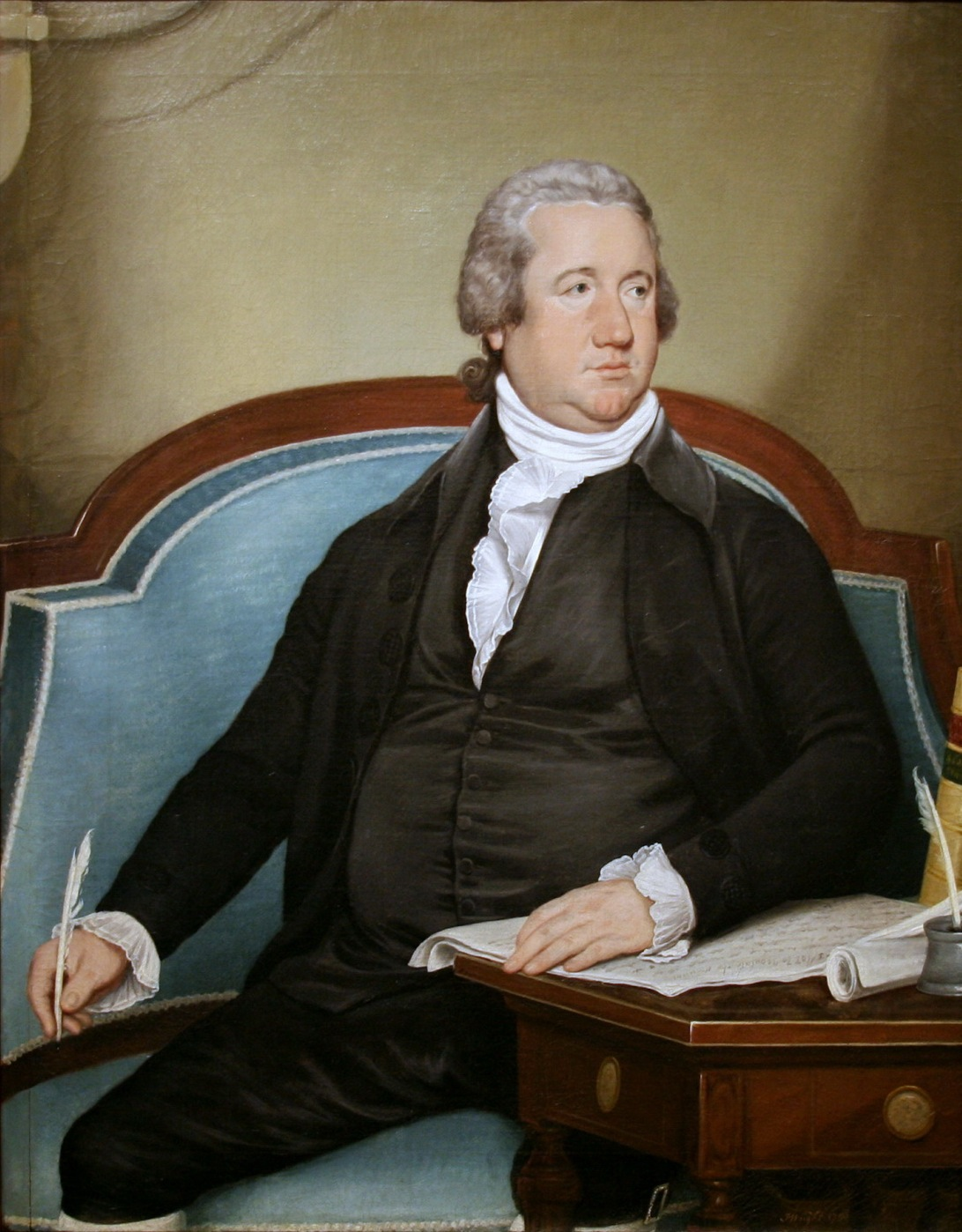 Frederick Muhlenberg of Pennsylvania, a former Lutheran minister and a member of the most prominent German family in America, was elected the first Speaker of the United States House of Representatives. A jolly fellow famous for his oyster suppers, Muhlenberg had considerable experience as a presiding officer; he had served a stint as president of the Continental Congress and had presided over the state convention called to ratify the Constitution in 1787. With President George Washington coming from the South and Vice President John Adams hailing from New England, Muhlenburg's selection provided a nice geographic balance for the new government's start.Muhlenberg is pictured in the act of signing House Bill 65, "An Act to regulate Trade and Intercourse with the Indian Tribes," which he did on July 20, 1790.